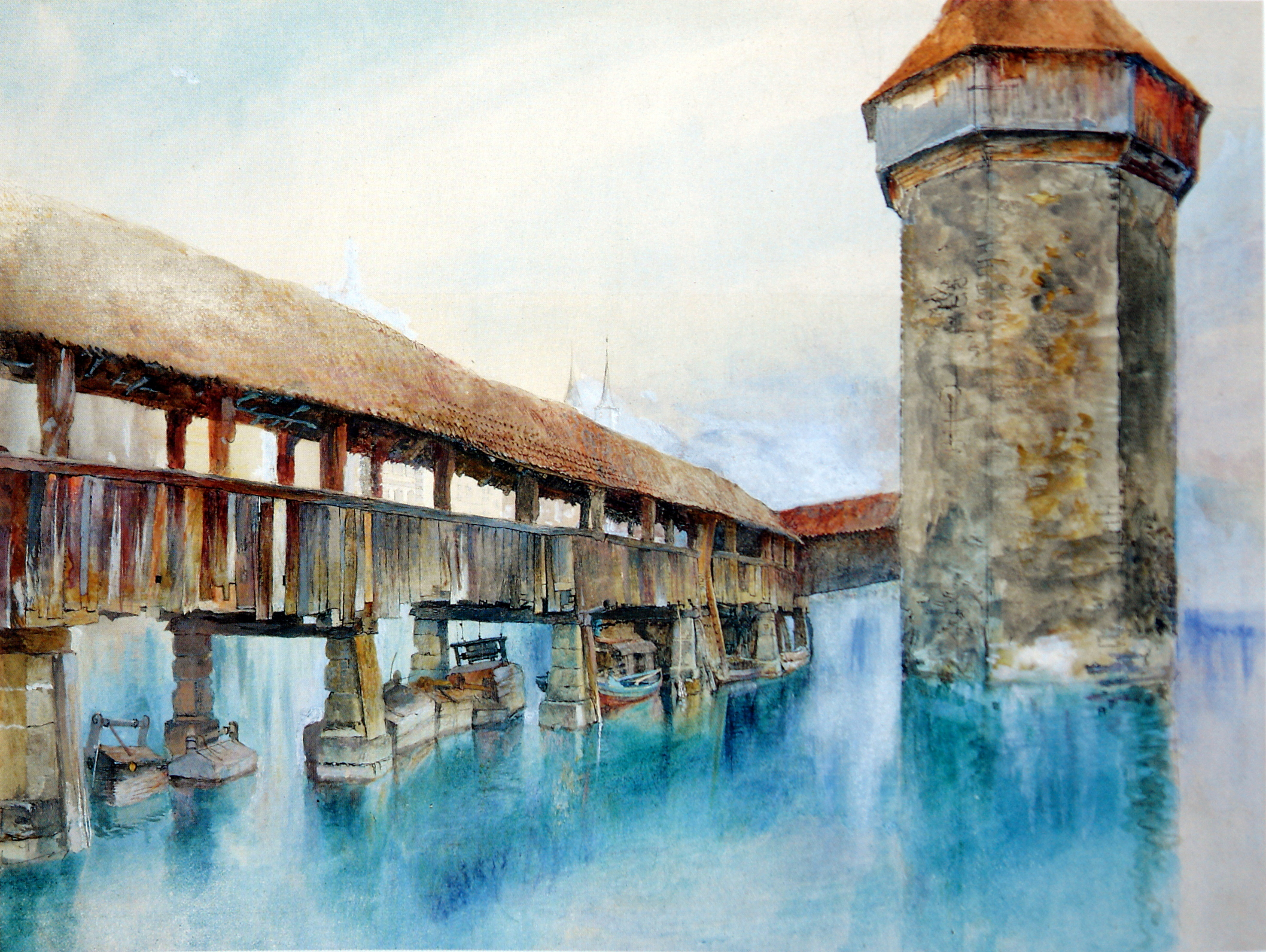 The Kapellbrücke, Lucerne. Pencil, watercolour and bodycolour, 18.4 x 29.2 cm